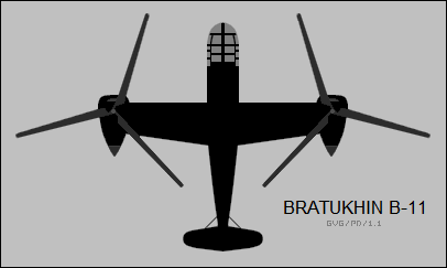 Plan-view silhouette of the Bratukhin B-11 helicopter (1948)